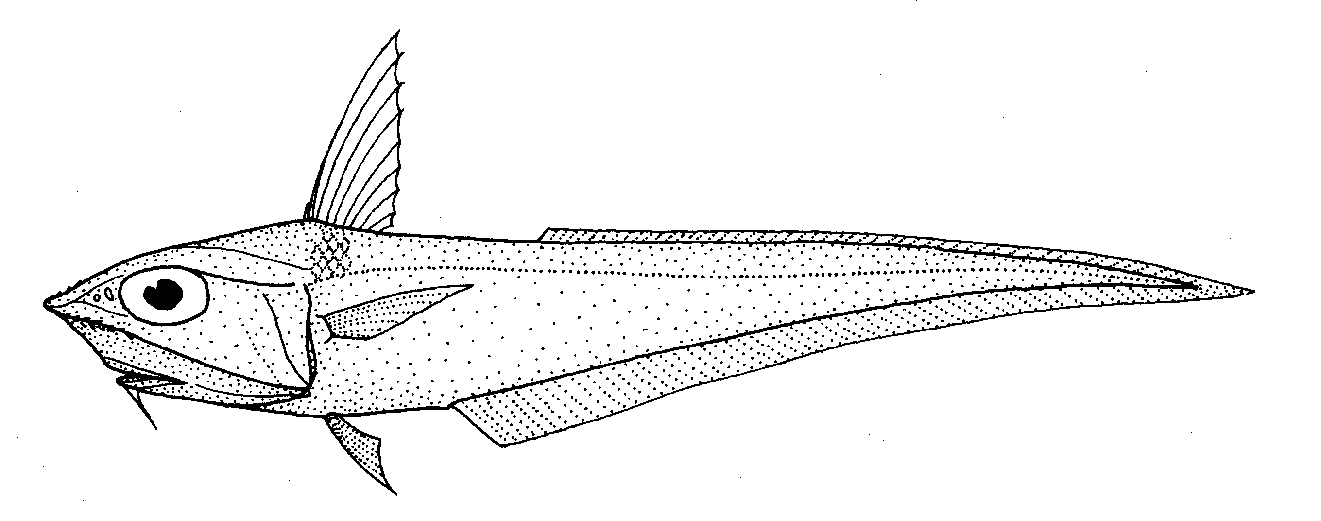 Coelorinchus mirus (Gargoyle fish)